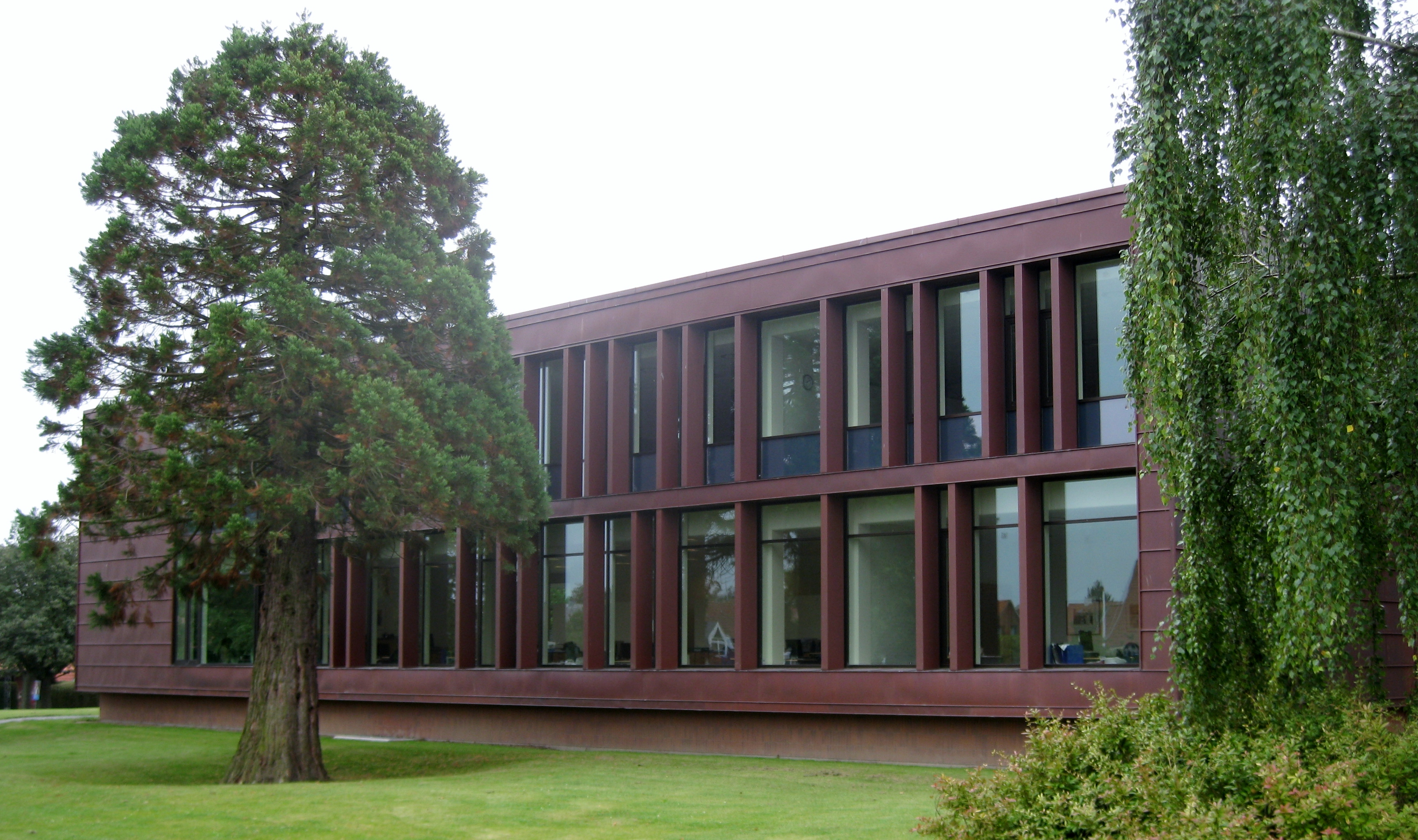 Business College Syd, Sønderborg, Denmark